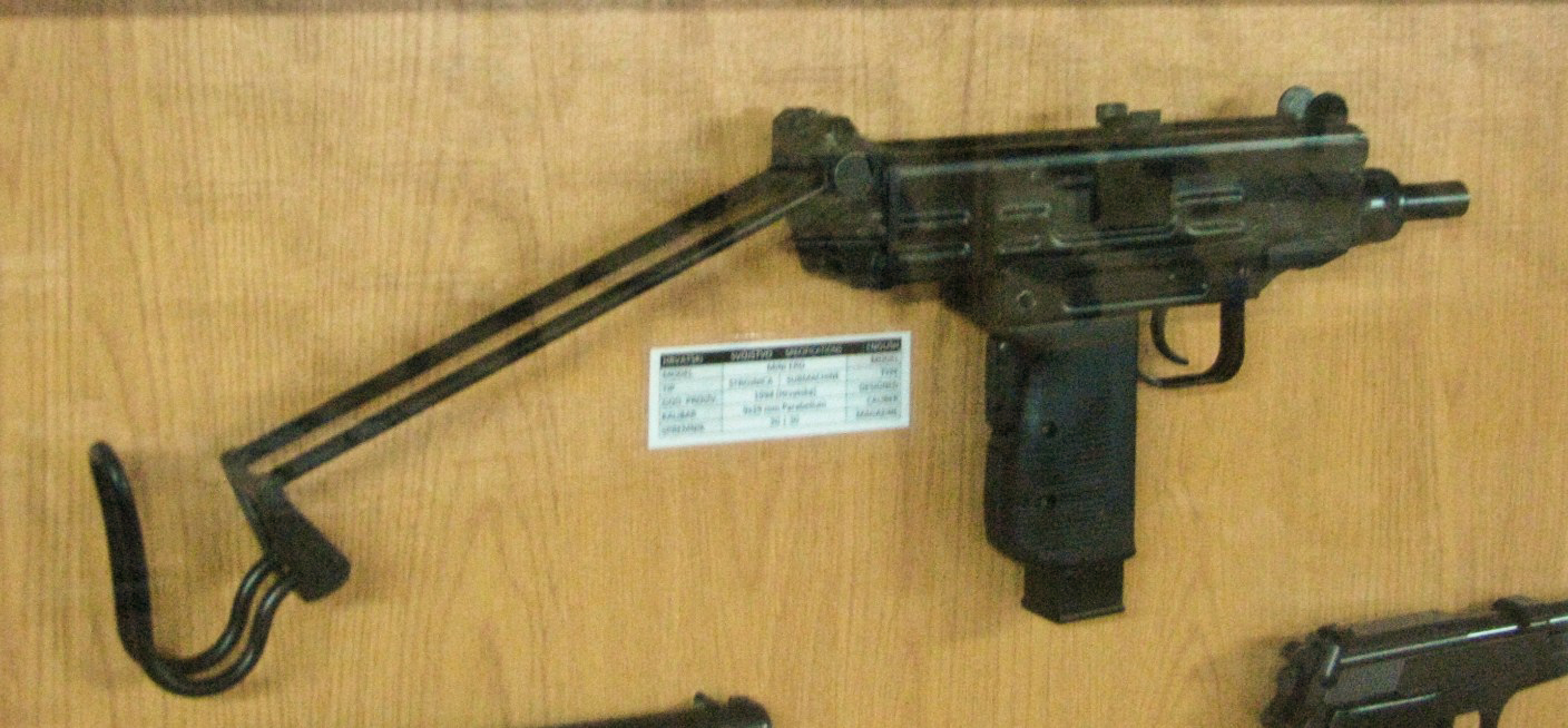 Croatian submachine Mini Ero cal. 9×19mm